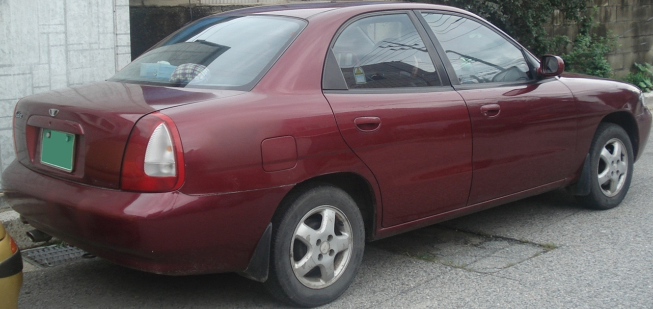 Daewoo Nubira